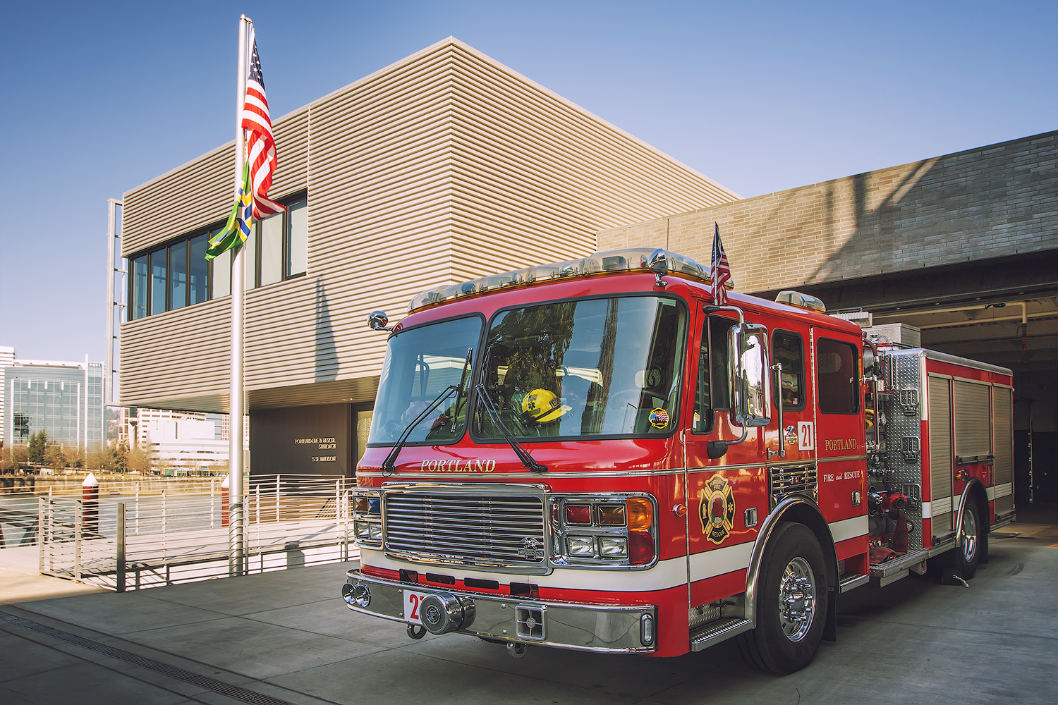 Portland Fire & Rescue Station 21 is located at 5 SE Madison on the east bank of the Willamette river. Built 1961, reconstructed in 2010. The facade by artist David Franklin ( is called “The Rippling Wall”.